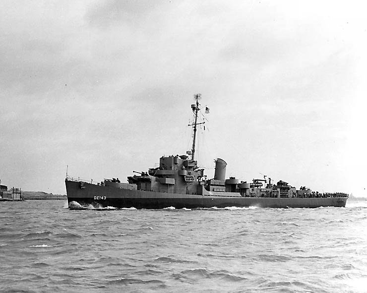 USS Fiske (DE-143) underway in New York Harbor, 20 October 1943. Courtesy of Donald M. McPherson, 1967. (Official US Navy photo #NH53909, from the Naval Historical Center.) Official US Navy photo taken from